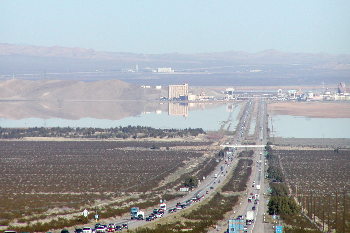 Ivanpah Lake filled with water from the winter 2004-5 rains, seen from Interstate 15 near Nipton Road exit, California-Nevada border